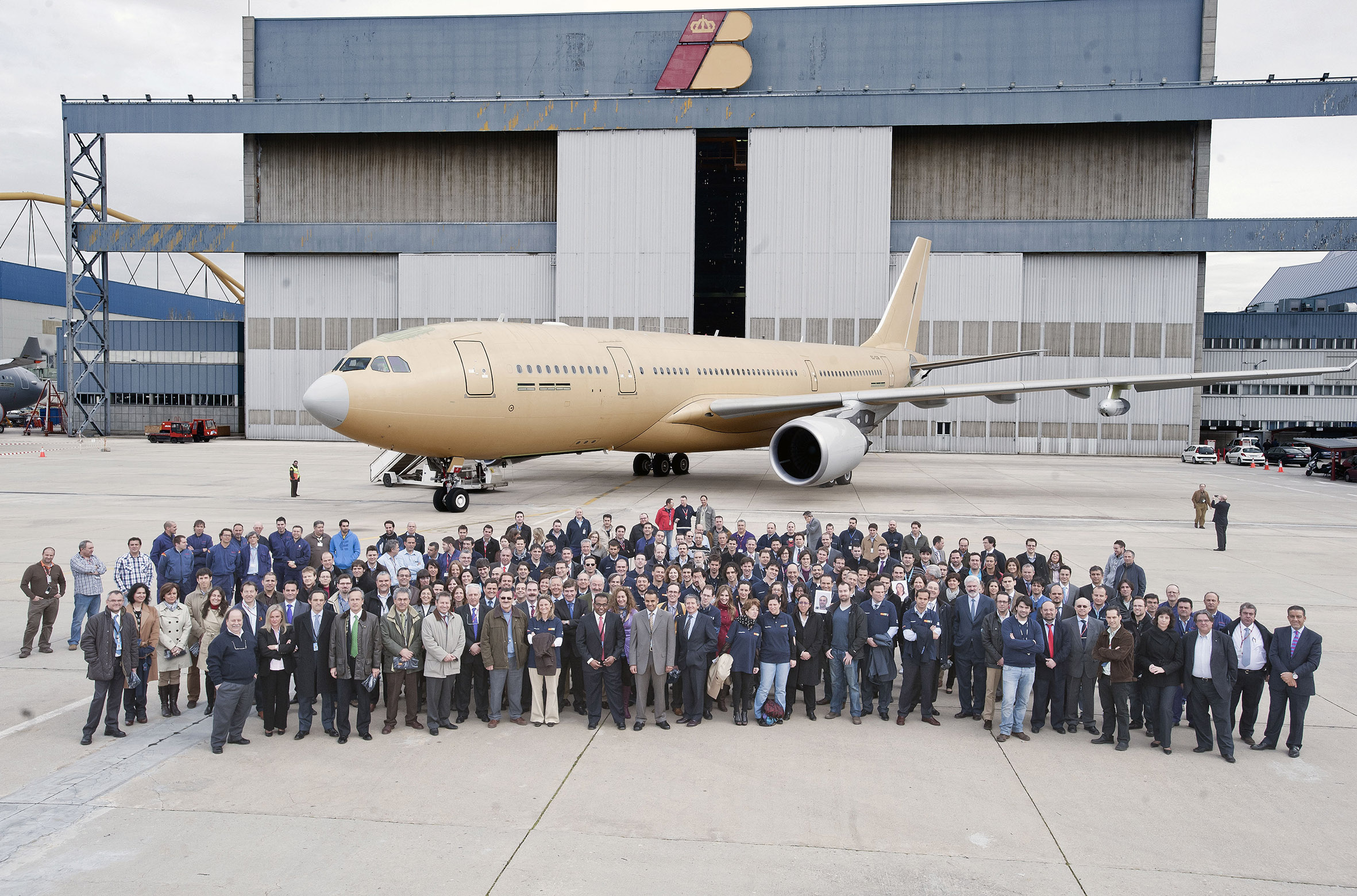 Maintenance and engineering teams from Iberia Airlines stand in front of an Airbus A330 passenger jet tanker transformed into a Multi Role Tanker Transport (MRTT), featuring aerial refueling. The jet is owned by the Royal Saudi Air Force. The group is part of Iberia's maintenance installations in Madrid. See Iberia press release from 17 March of 2011 for details.